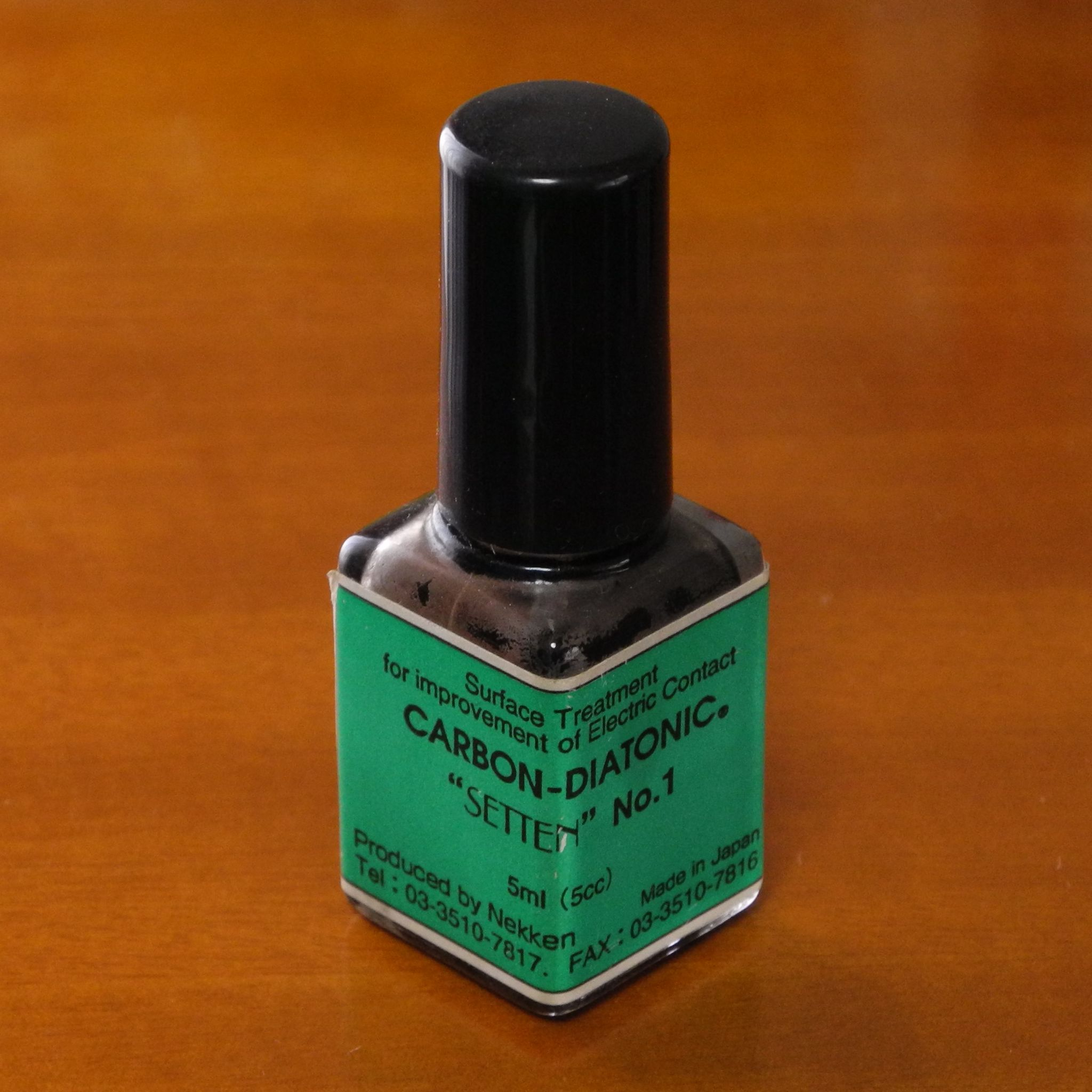 CARBON-DIATONIC "SETTEN" No.1